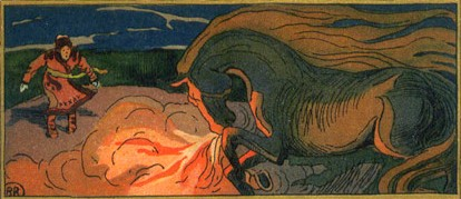 Postcard. The character from a Russian fairy tale